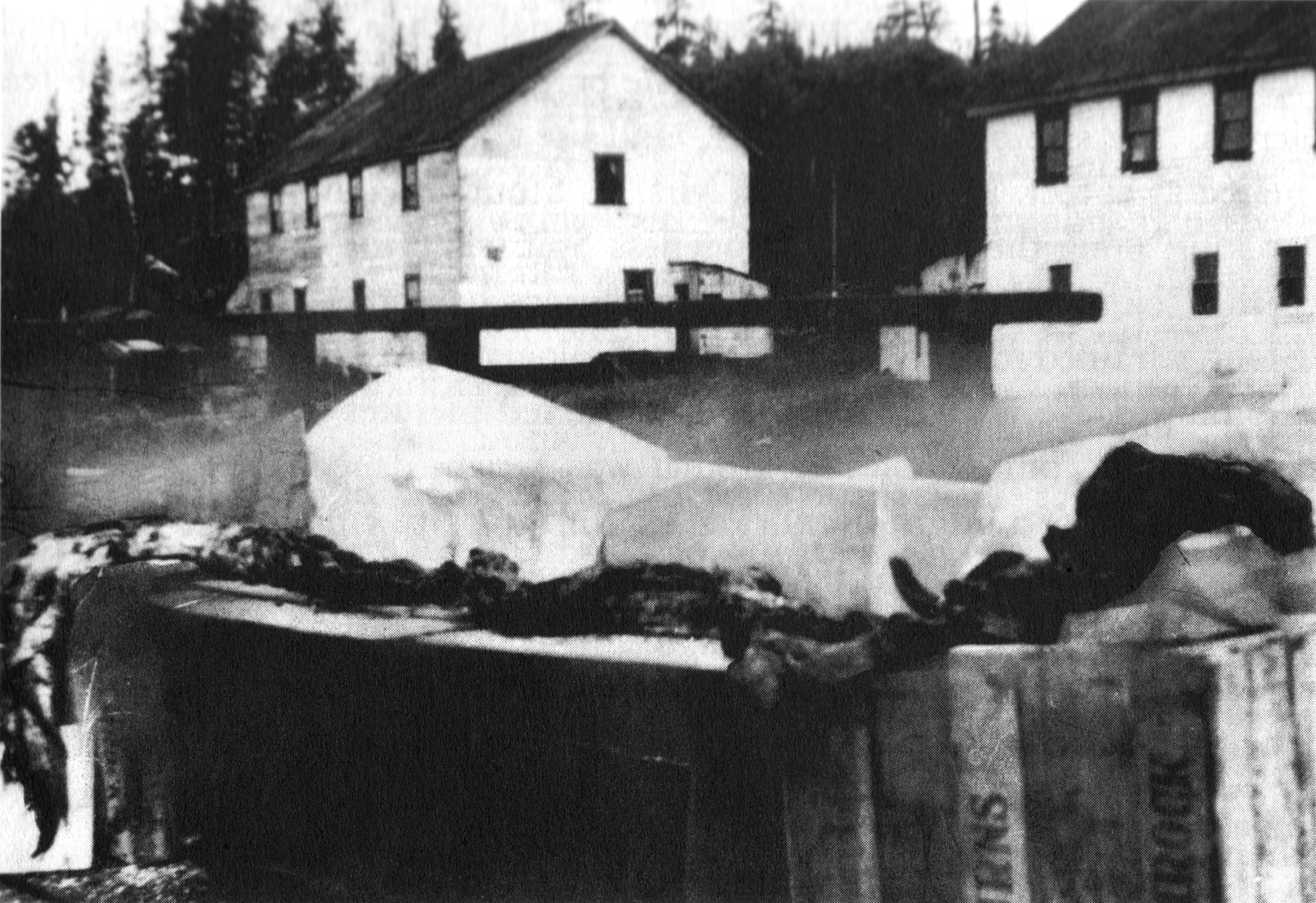 "Cadborosaurus willsi" carcass from October, 1937